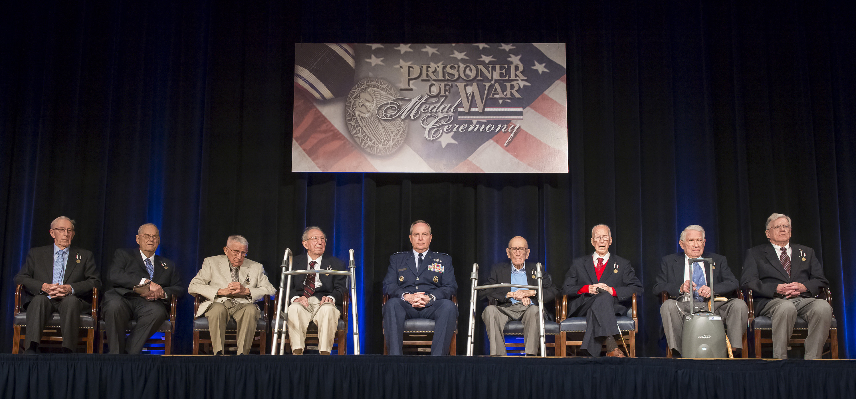 Air Force Chief of Staff Gen. Mark A. Welsh III (seated center) presented the Prisoner of War Medal to eight Army Air Corps members during a ceremony in the Pentagon, Washington, D.C., April 30, 2014. From the left are Sgt. William G. Blackburn, Tech. Sgt. Alva H. Moss, 1st Lt. Paul J. Gambaiana, Lt. Col. (ret.) James I. Misuraca, Maj. (ret.) James V. Moran, 1st Lt. James F. Mahon, Staff Sgt. John G. Fox, Sgt. George E. Thursby. The eight aviators served in World War II . The eight aviators, all bomber crew members were shot down flying missions over Germany and were held in a prison camp in Wauwilermoos, Switzerland. The men were originally denied POW status. U.S. Army Maj. Dwight Mears, whose grandfather, Lt. George Mears, who was held at the prison, fought diligently for 15 years to get the men recognized as POWs. Then Acting Secretary of the Air Force Eric Fanning authorized the medal for 143 Army Air Corps aviators in October of last year. (U.S. Air Force photo/Jim Varhegyi)